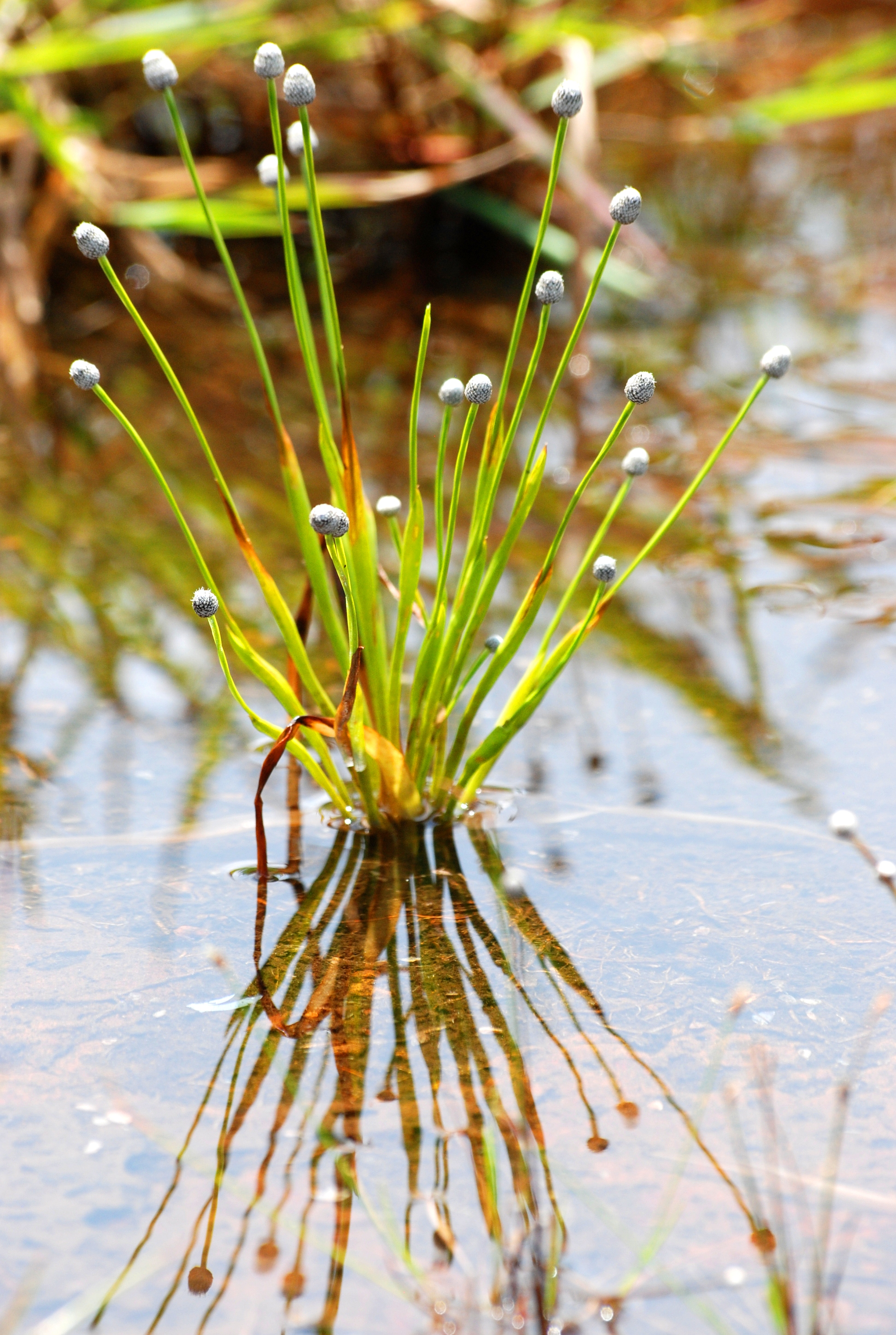 Eriocaulon madayiparense Swapna, Rajesh, Manju & Prakashkumar, sp. nov. is described and illustrated from the Madayipara, a lateritic hillock in the midland of Kannur District of Kerala. The species is allied to Eriocaulon eurypeplon Koernicke, in its two free male and female sepals, female sepals being keeled and acute and not exceeding the floral bracts, acuminate leaf apex and setiform seed appendages appearing in vertical rows, but differs mainly in having yellow seeds with solitary appendage arising from transverse radial walls, curved and connate with the adjacent ones of the same vertical row forming longitudinal parallel ribs on the surface of the seeds.